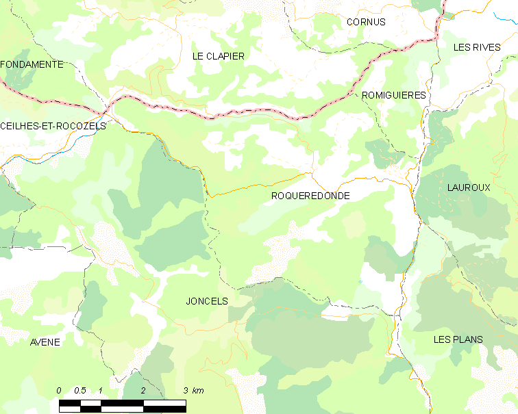 Map commune FR insee code 34233.png - Roqueredonde